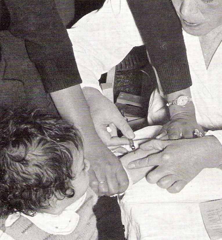 Vaccination against Poliomyelitis in Israel